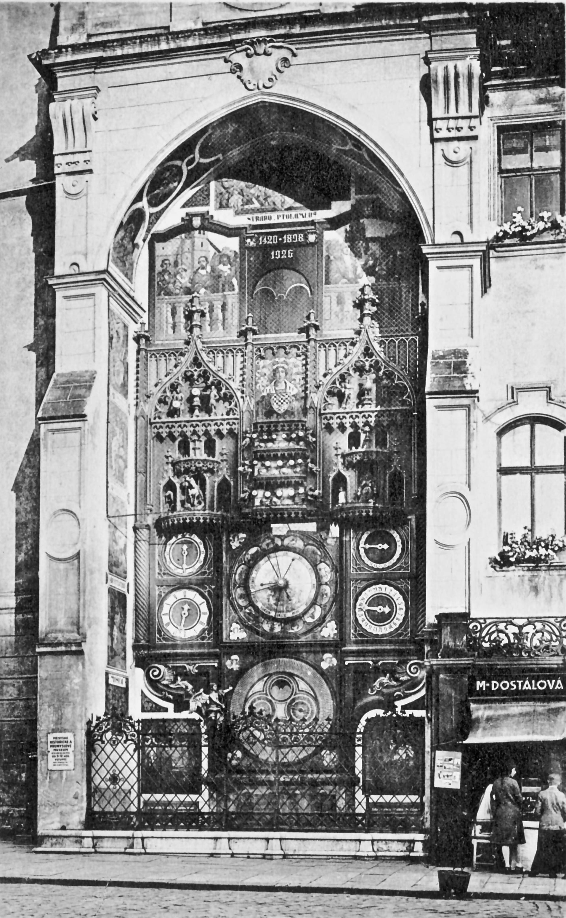 Astronomical clock in Olomouc before 1945